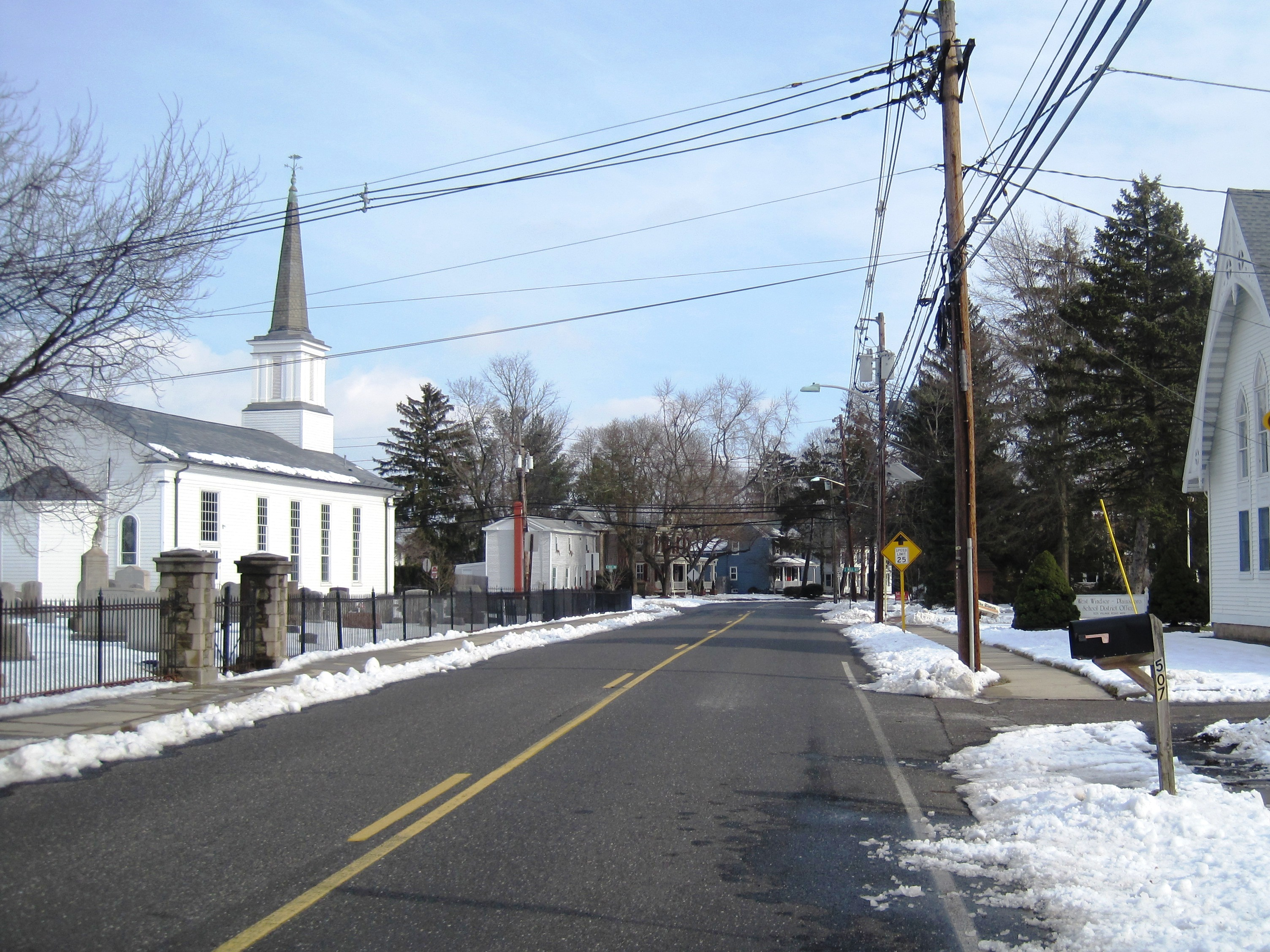 Photo of an unincorporated section of West Windsor Township, New Jersey known as Dutch Neck. The photo was taken on Village Road West facing east towards South Mill Road.